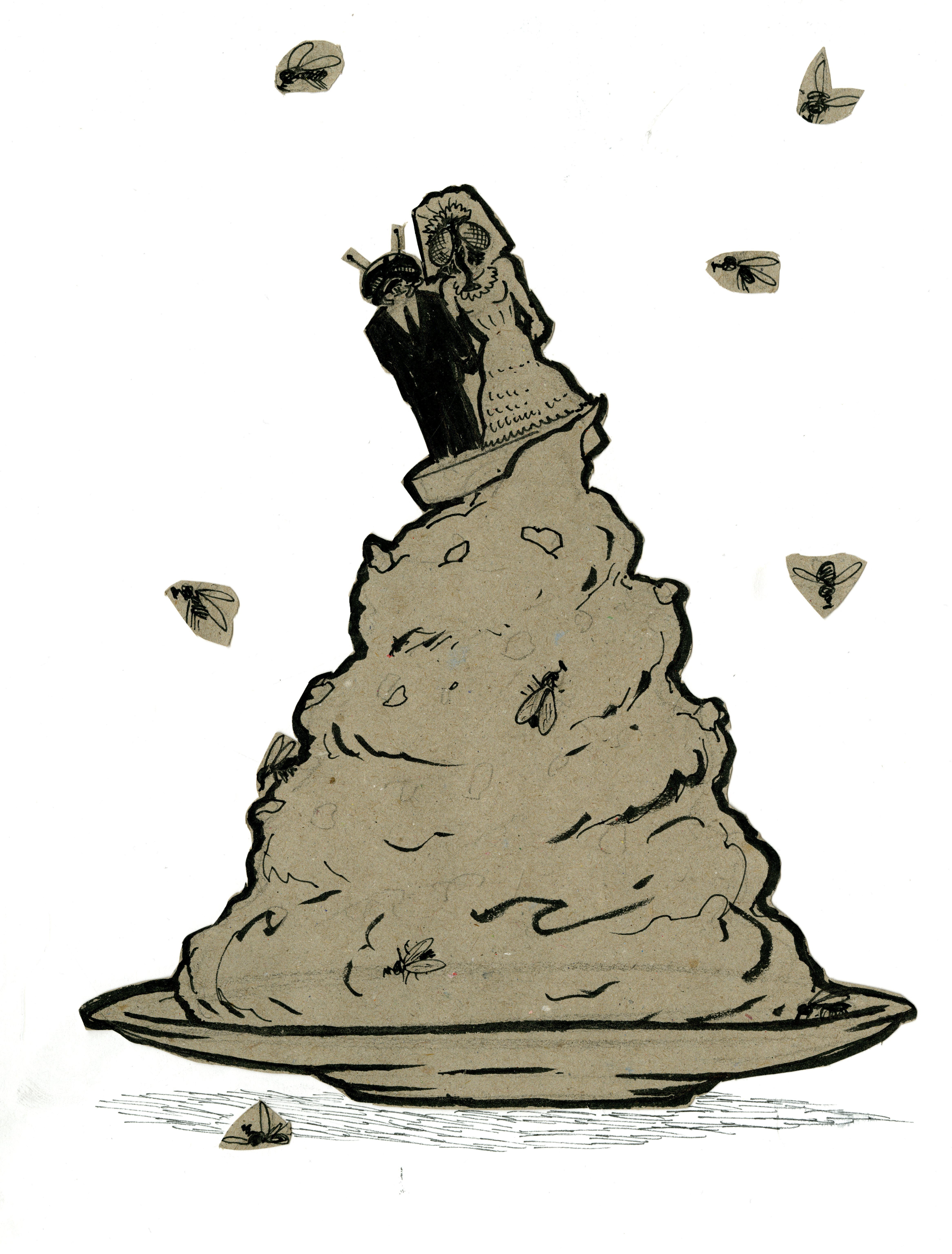 An illustration of Tordivelen og Flua.